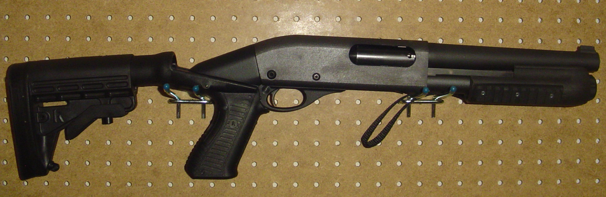 This is a Remington 870 Express customized by Dlask Arms for the Canadian market. It is fitted with a 8.5" barrel and consequently requires a shortened tubular magazine and forend.